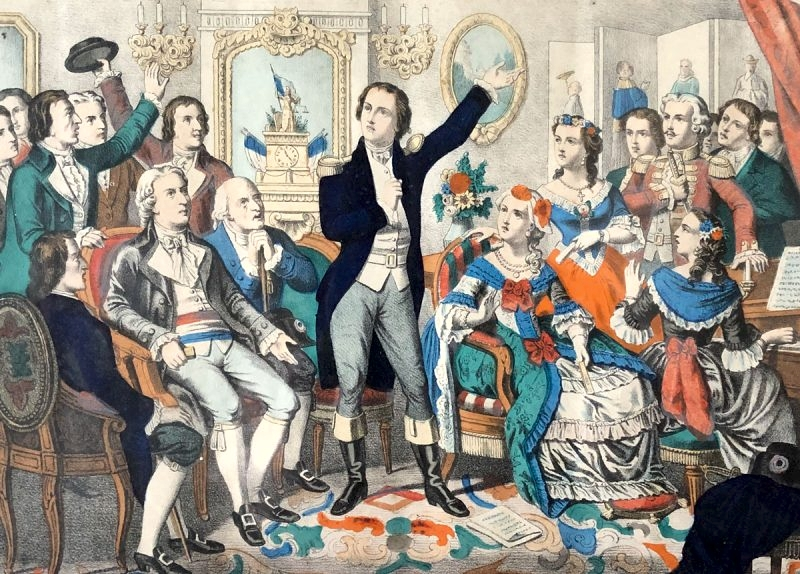 Rouget de Lisle, Composer of the Marseillaise, sings it for the first time. French painting. The text below the Print reads: Lith. Wenzel, Wissembourg, Alsace, Gadola & Cie editeurs, 8 cours de Brosses, Lyon, Depose, V Gosselin a Paris.